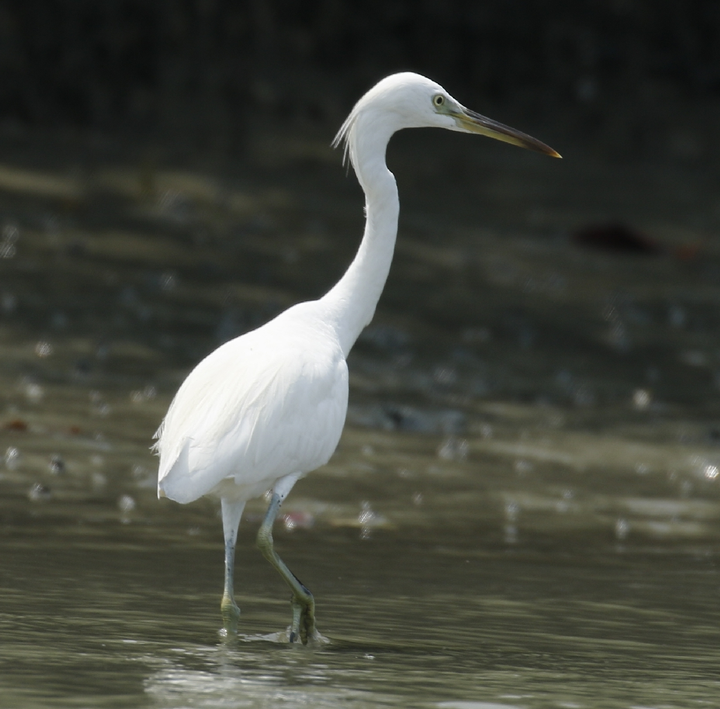 Laem Pak Bia District - Thailand